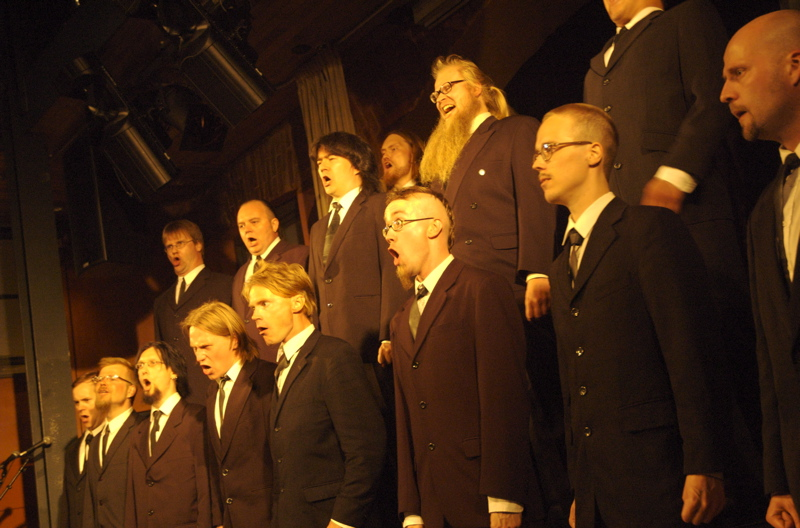 Finnish shouting choir Mieskuoro Huutajat on stage. The name means translated 'mens choir the shouters'.